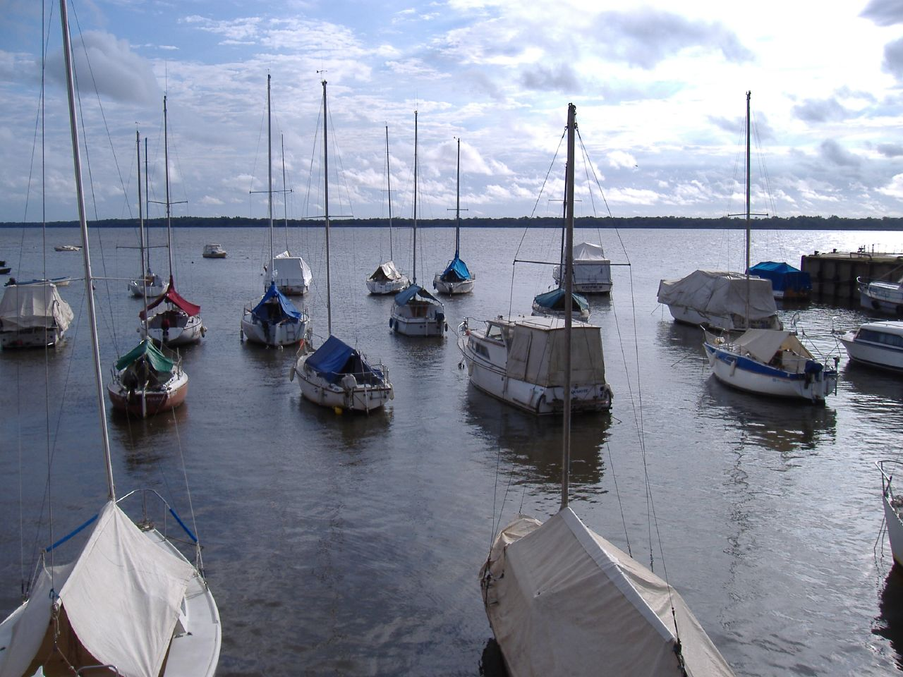 Boats in a small harbor on the Uruguay River, in Colón, Entre Ríos, Argentina.